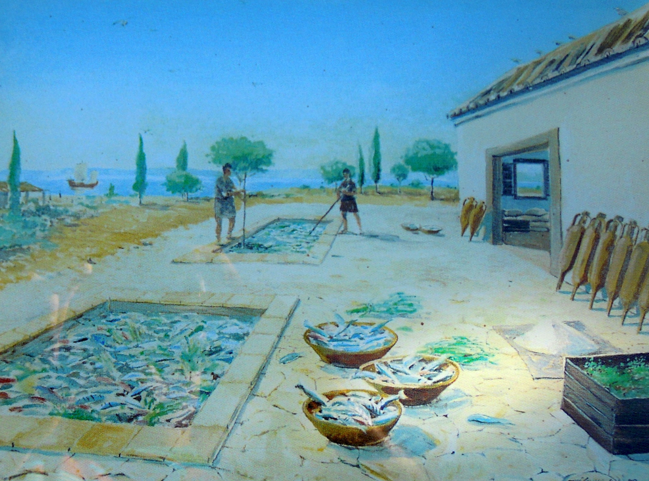 The Cetaria, theses are the remnants of the fish salting tanks used to produce Garum a type of fish sauce regarded highly by the Romans. The Roman Ruins of the Villa at Cerro da Vila in the resort of Vilamoura, Loule, Algarve, Portugal. This monument is classified as Imóvel de Interesse Público.